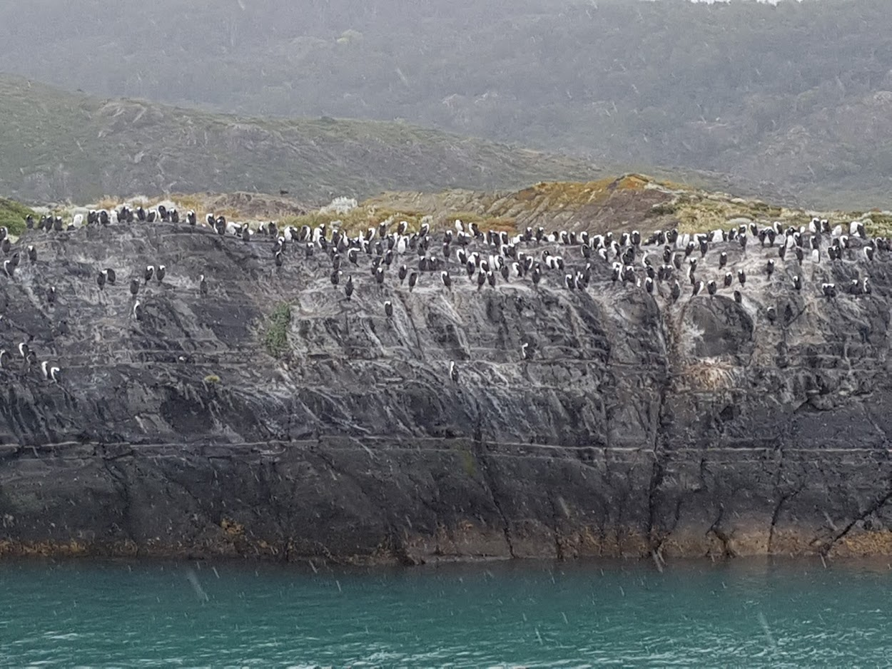 Cormorants colony viewed from the boat sailing up the Última Esperanza Sound